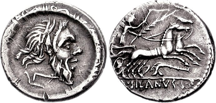 D. Junius Silanus L.f. 91 BC. AR Denarius (3.89 g, 5h). Rome mint. Mask of Silenus right; plow below; all within an ornamented torque / Victory driving galloping biga right, holding whip, palm branch, and reins; carnyx (Gallic trumpet) below. Crawford 337/1a; Sydenham 644a; Junia 19. Good VF, toned, a few minor marks under tone.